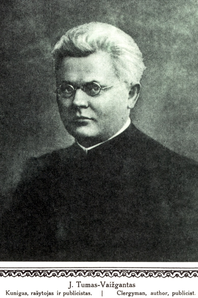 Juozas Tumas-Vaižgantas, Lithuanian clergyman, writer